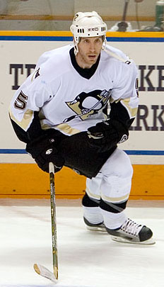 Pittsburgh Penguins vs. San Jose Sharks